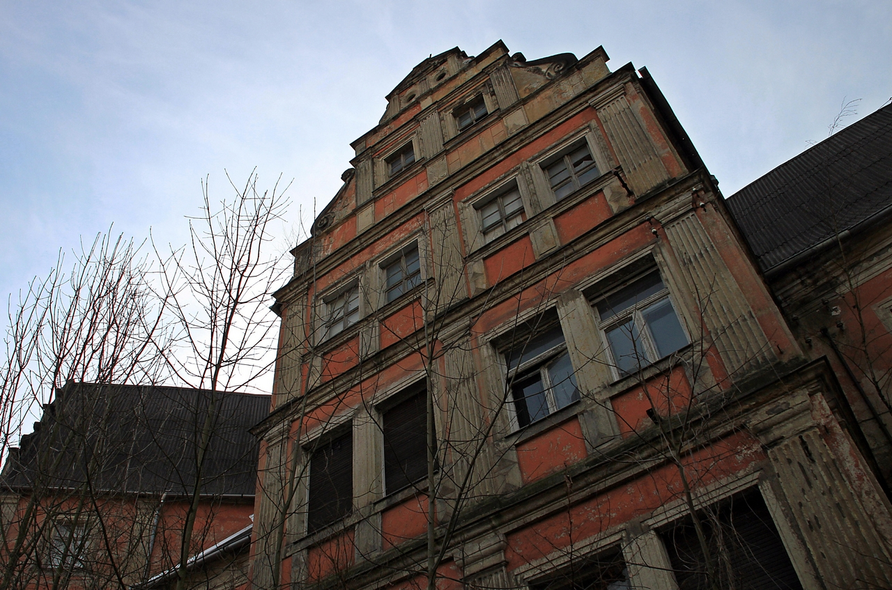 This photo shows Rottwerndorf Castle (built 1556-61) in Pirna-Rottwerndorf.